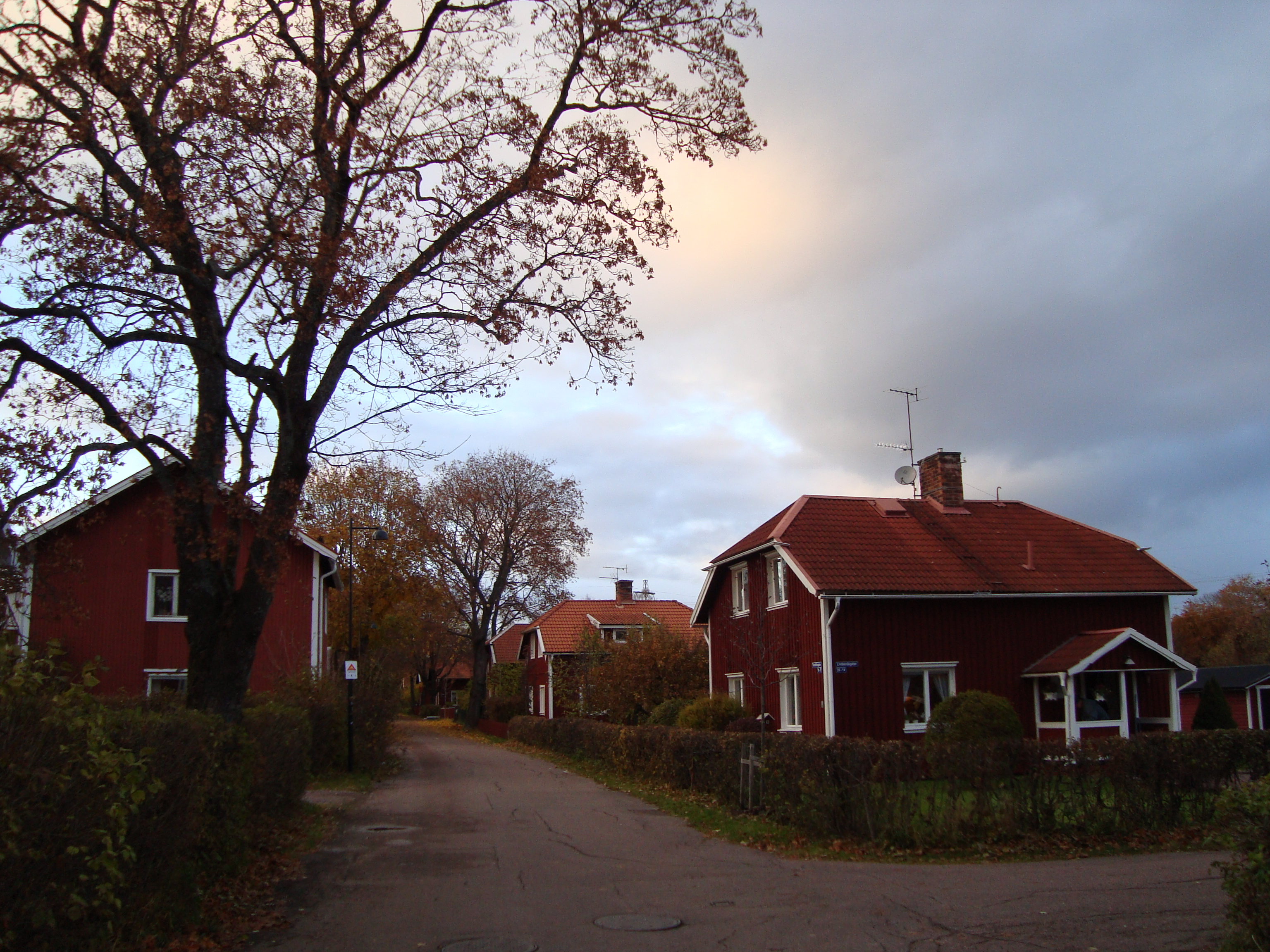 Street in Bergslagsbyn, Borlänge, Sweden